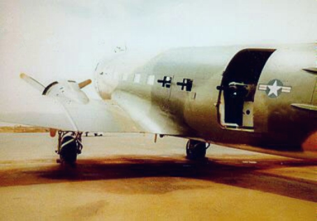 AC-47 gunship - one gatling gun points out the cargo door, and one each points out of the two windows forward of the door. An AC-47 at Nha Trang Air Base displays the three Gatling type machine guns that make up its armament. The AC-47s were the first gunships and were called a variety of nicknames -- Puff, Spooky and Dragon ship were among the most popular